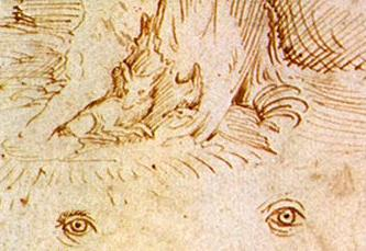 The Wood that hears and sees, detail.